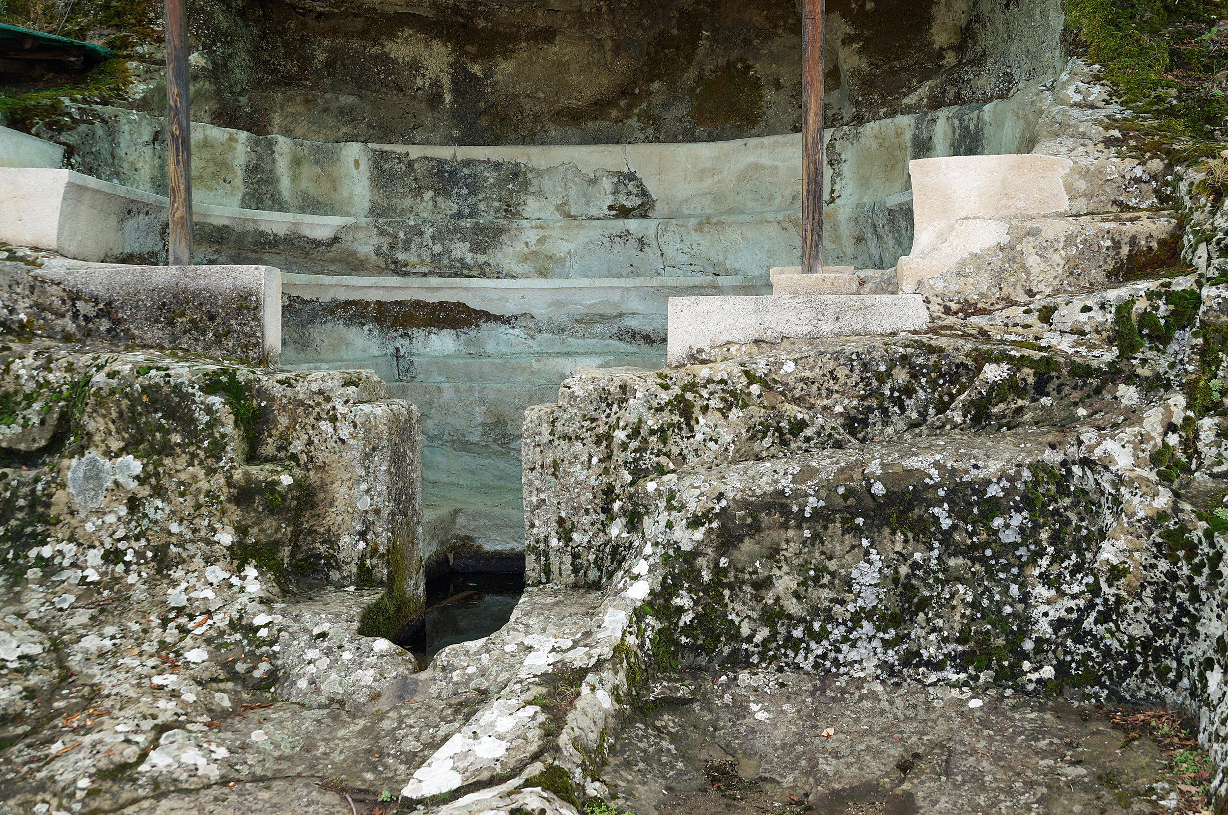 Selca e Poshtmë, Albania: tomb 2 in form of a theater